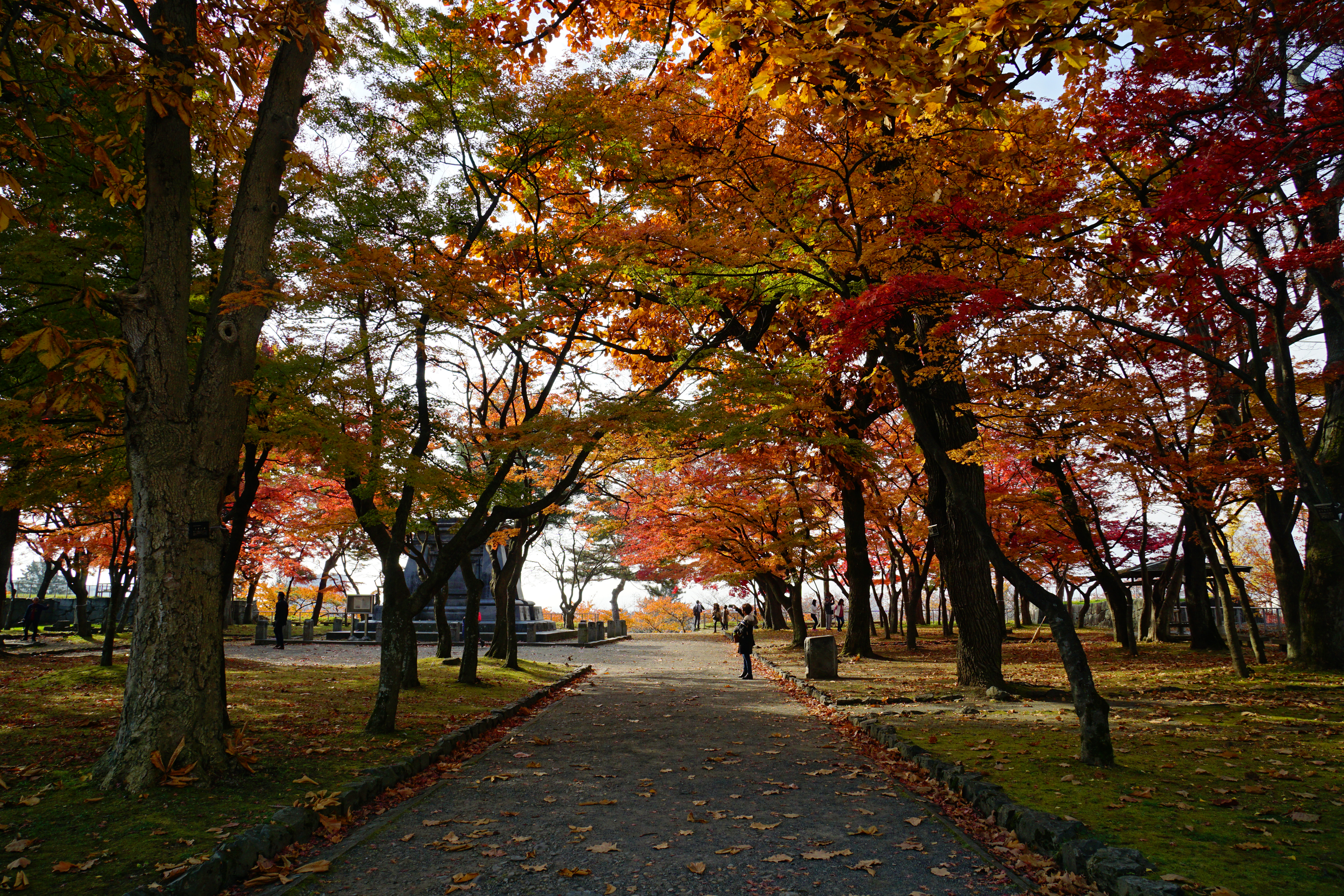 Morioka_Castle in Morioka, Iwate prefecture, Japan